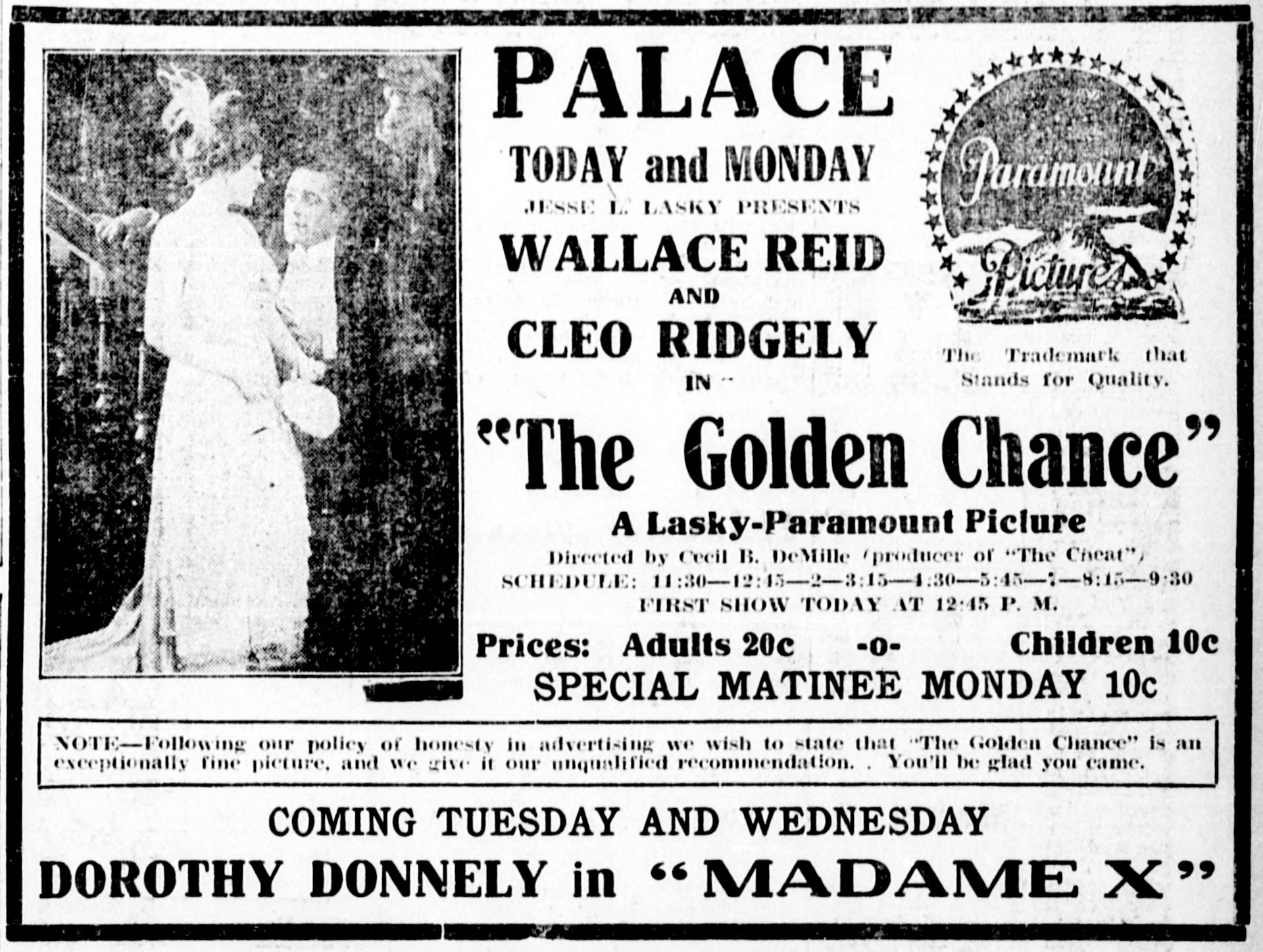 The Golden Chance is a 1915 American drama film directed by Cecil B. DeMille. This is a newspaper advert for the film.